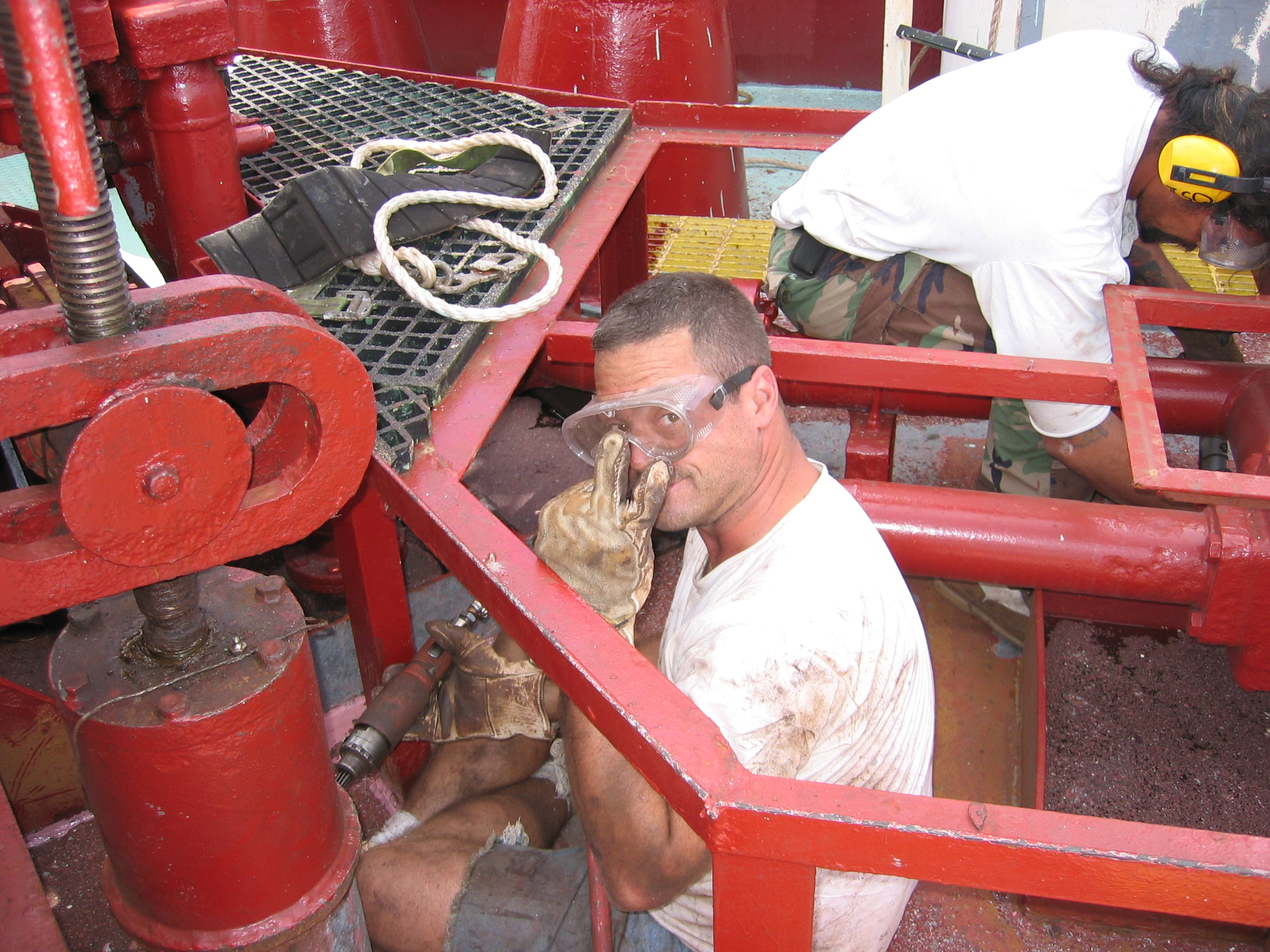 An Able Seaman (occupation) scaling rust from an anchor winch.